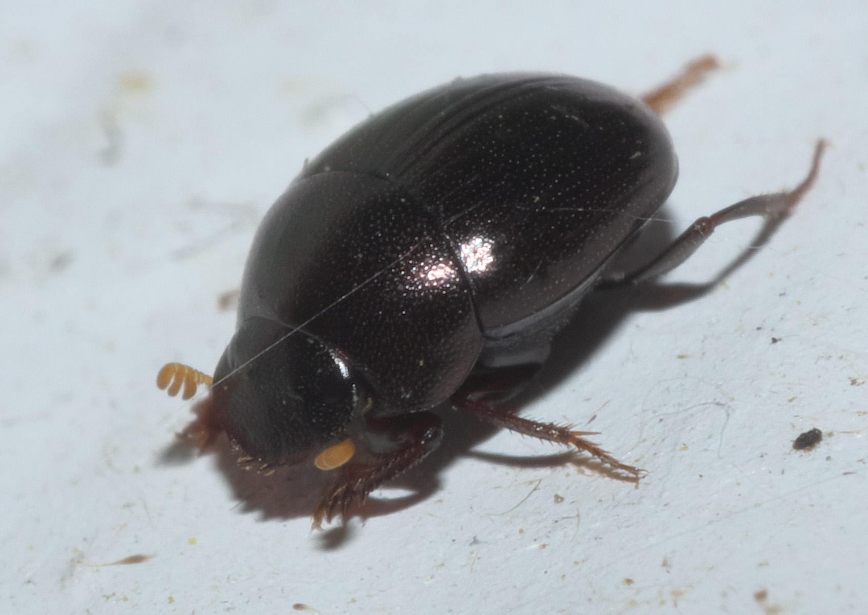 Pseudocanthon perplexus, Subfamily: Dung Beetles, ID Confidence: 88